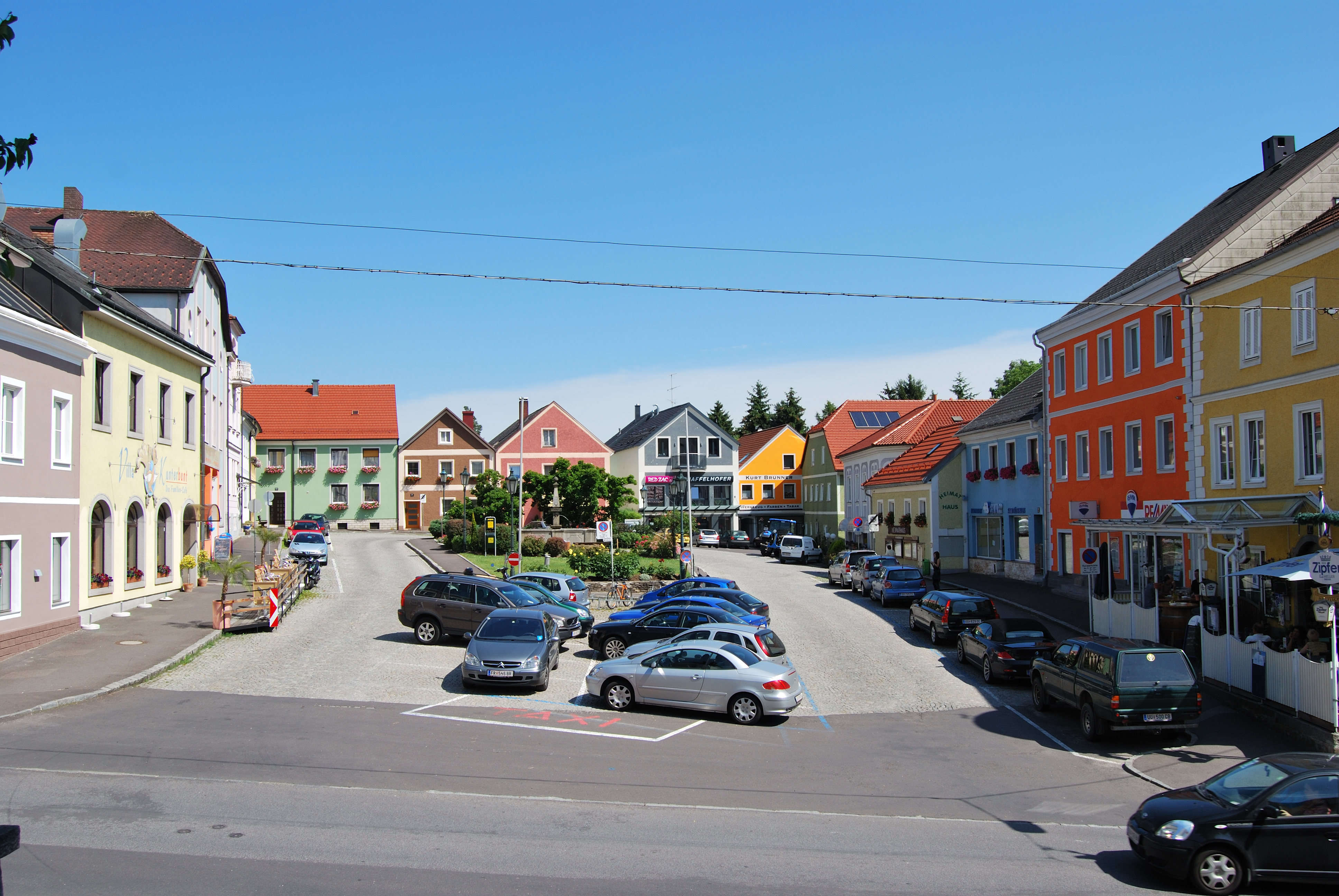 Townsquare in Gallneukirchen.